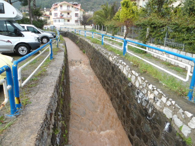 Same storm drain near my house during a heavy rain event (see: )